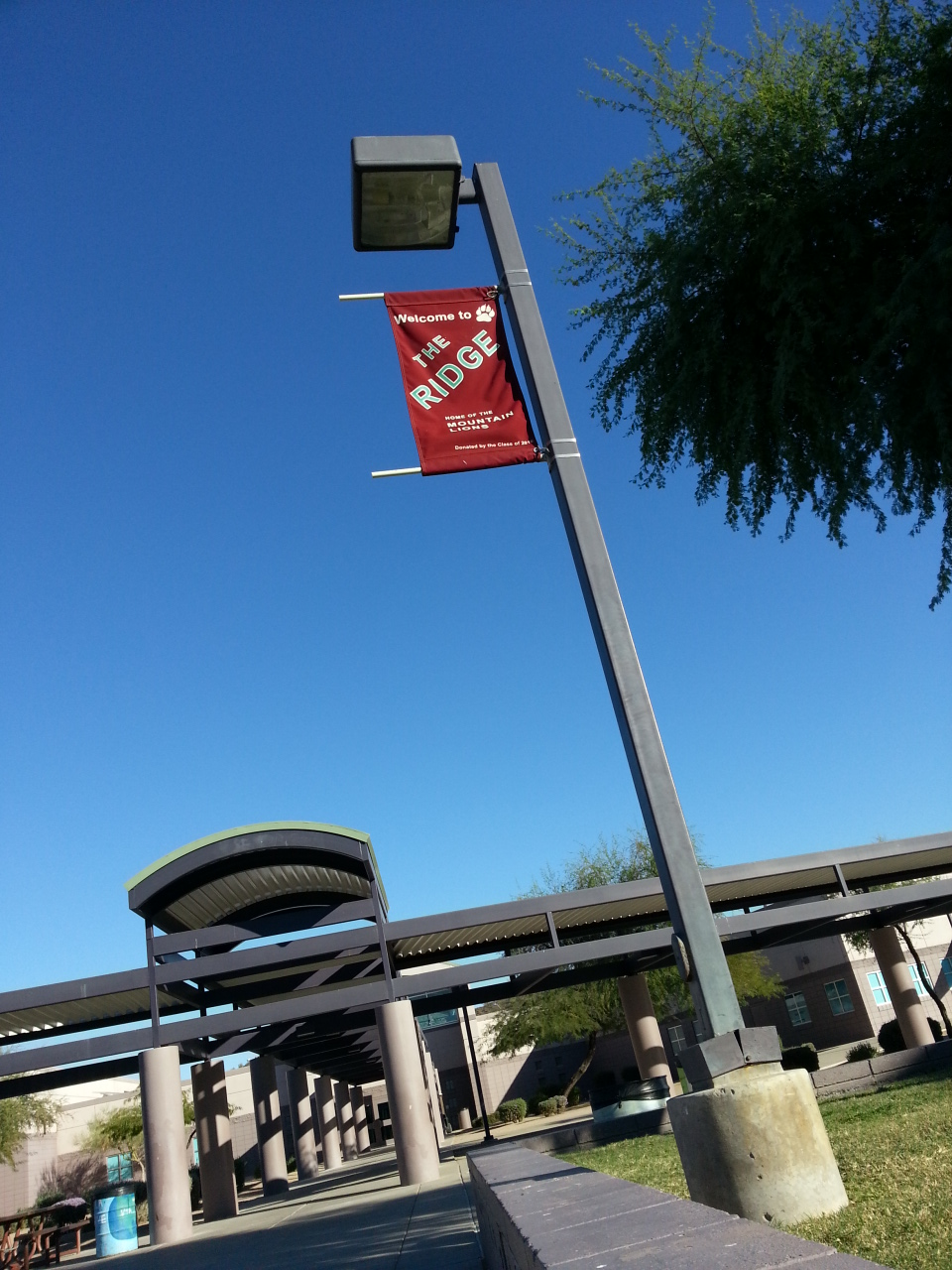 Picture of Banner in Courtyard of Mountain Ridge High School (Glendale, AZ)